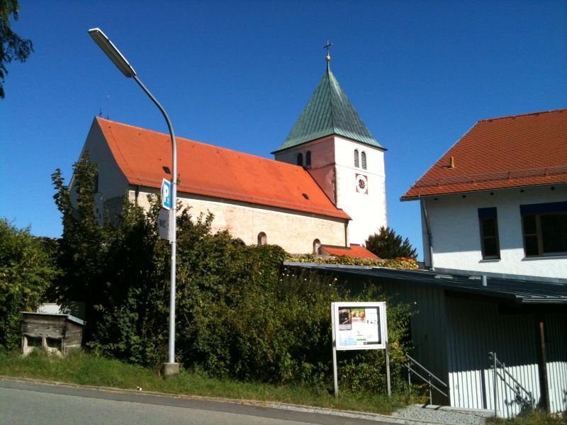 The Roman Church St. Margaretha of Pettendorf in Bavaria. It is likely that the church is the rest of the destroyed abbey of the 13. century.